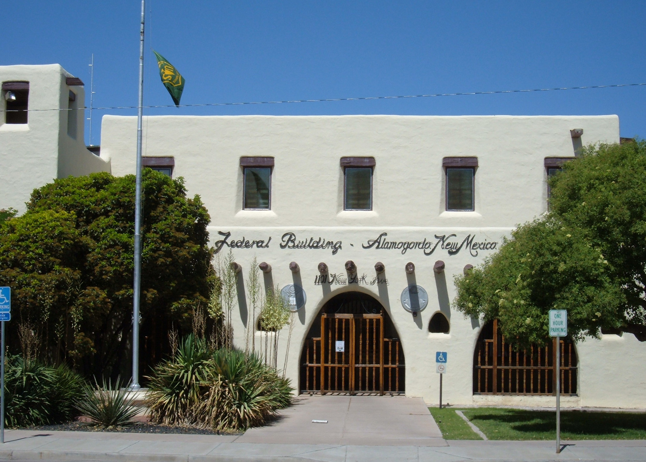 Alamogordo, New Mexico Federal Building, located at 1101 New York Avenue. Constructed in 1938 as a WPA project as the Alamogordo Main Post Office, now houses the headquarters of Lincoln National Forest, US Forest Service. Note added July 2009: The Forest Service moved out in October 2008, and the building is now the Otero County administration building.